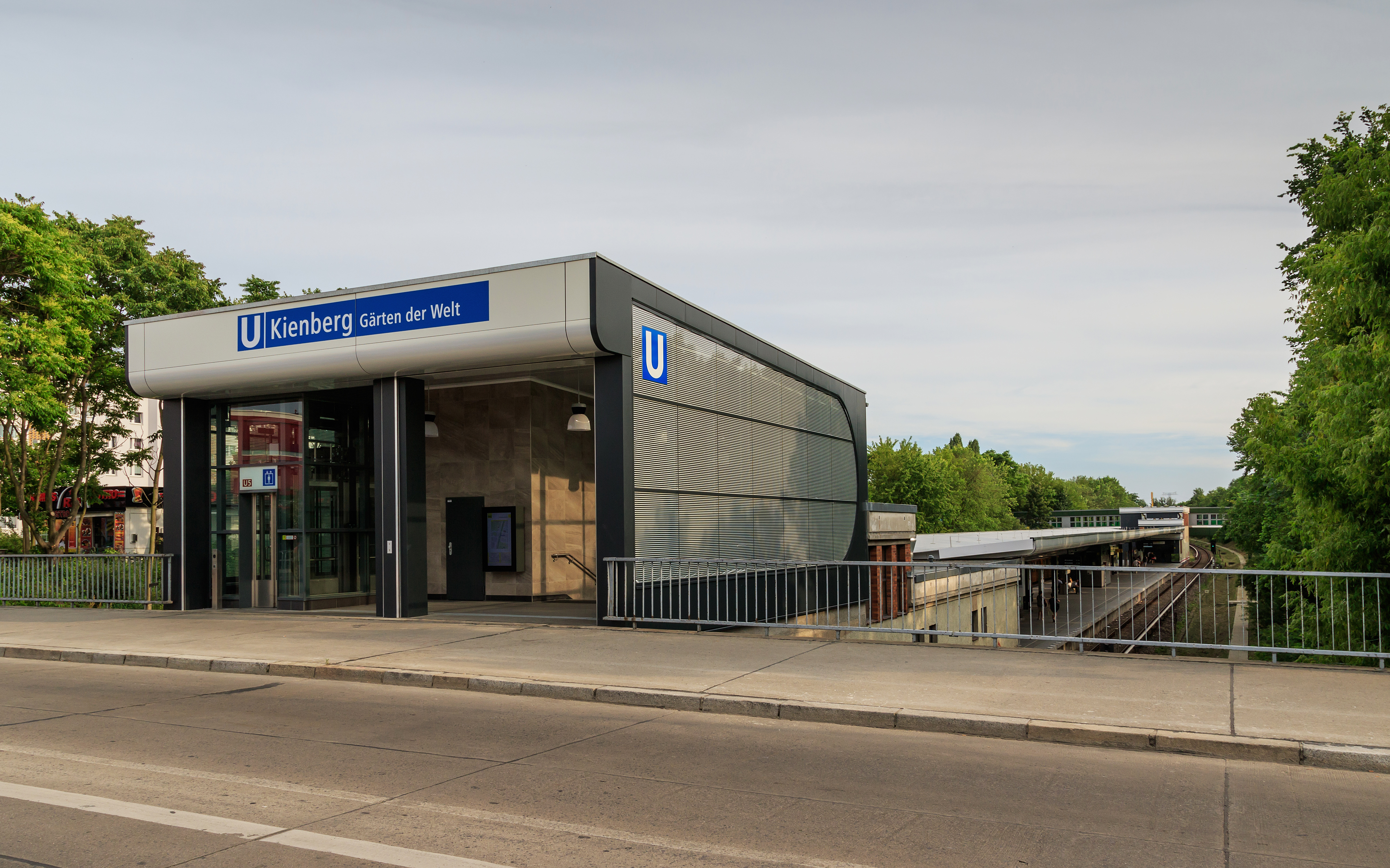 Entrance building of Kienberg U-Bahn station in Berlin (Germany)